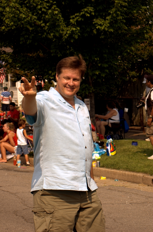 Kevin Zeese marching to promote his candidacy for U.S. Senate in the Dundalk, Maryland Independence Day parade on July 4, 2006.